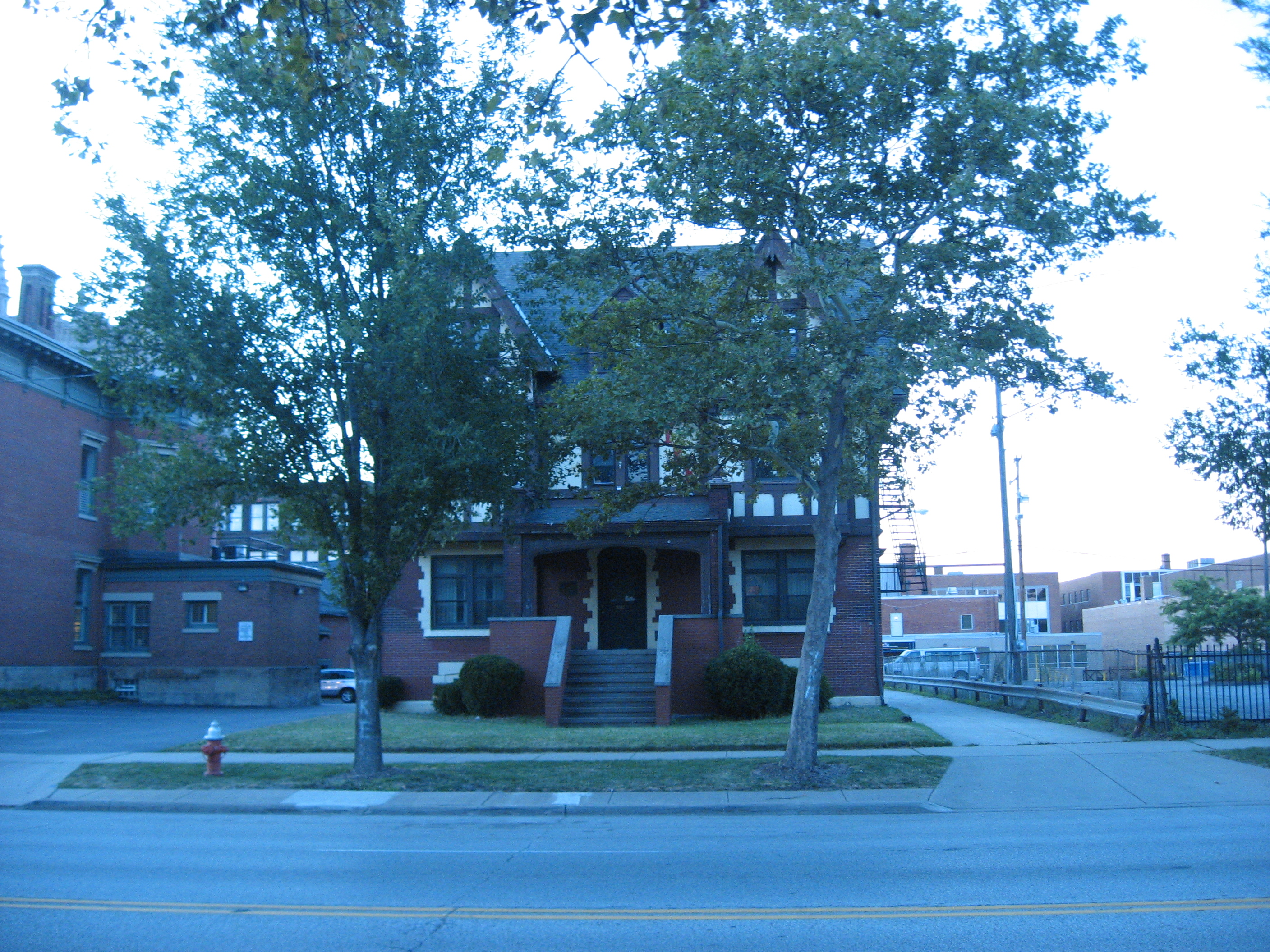 View of the Dr. William Gifford House, located at 3047 Prospect Avenue in Cleveland, Ohio, United States. Owned by the Delta Epsilon chapter of Tau Kappa Epsilon, it is listed on the National Register of Historic Places.